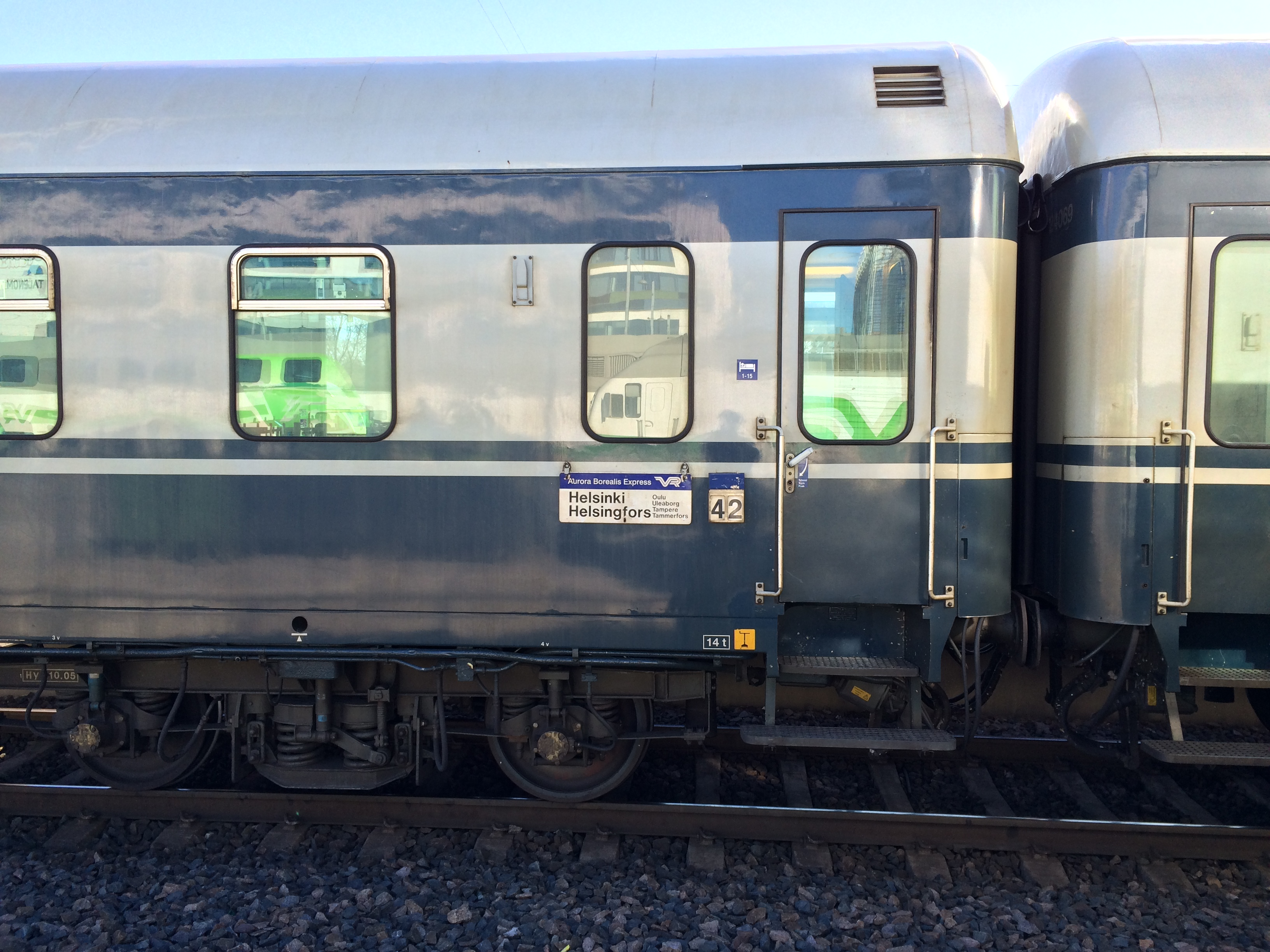 Sleeping cars of the Aurora Borealis Express train at Helsinki central railway station in 2015.